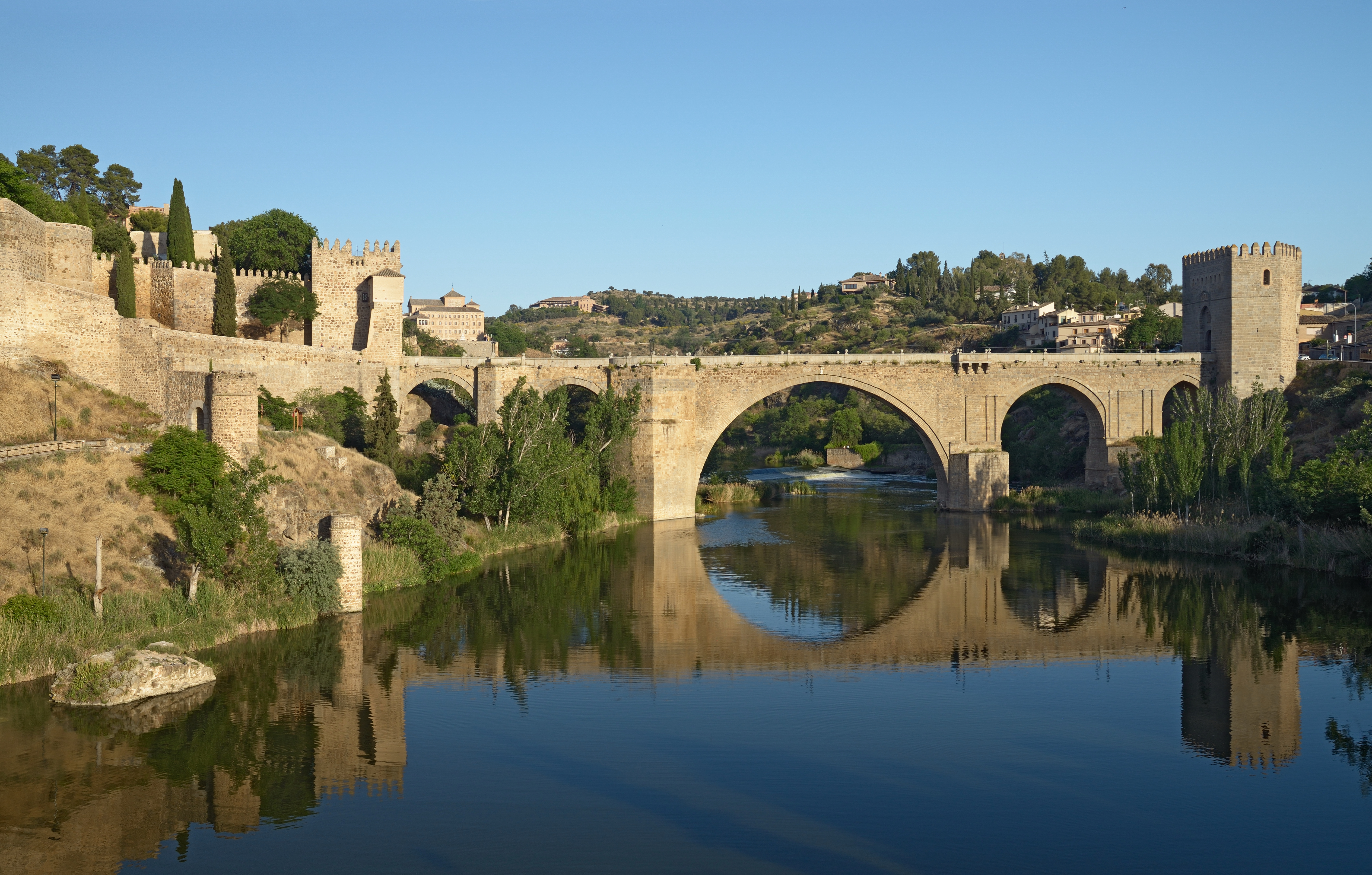 Puente de San Martín. Toledo, Spain. View from the north-west